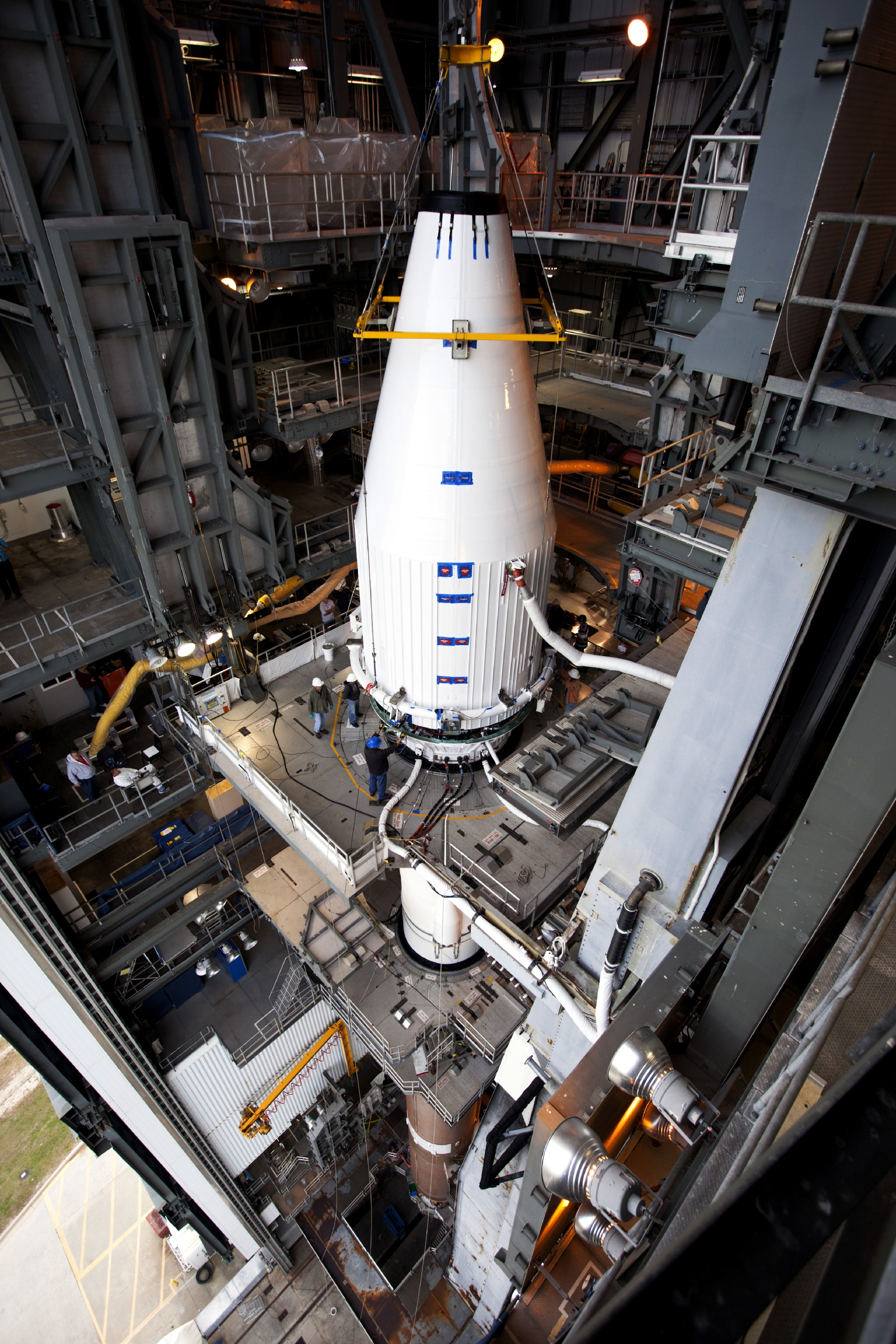 Crews guide NASA's Mars Atmosphere and Volatile EvolutioN, or MAVEN, spacecraft, inside a payload fairing, into place atop a United Launch Alliance Atlas V rocket at the Vertical Integration Facility at Space Launch Complex 41